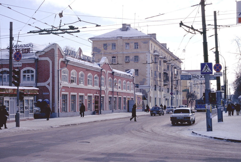 Tyumen (Russia).